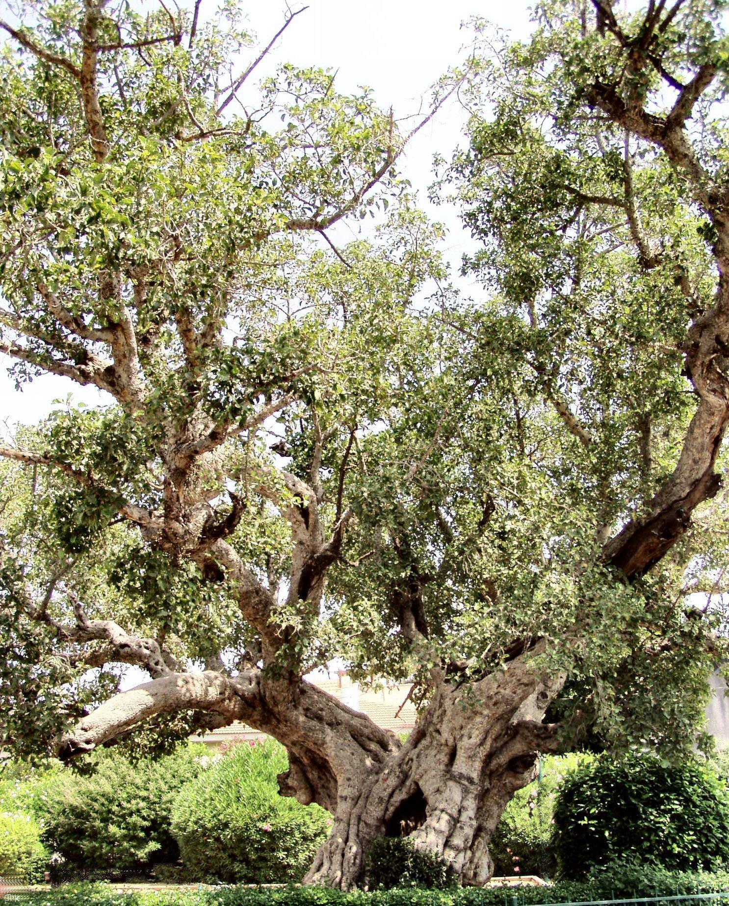 A very old sycamore tree - Ficus sycomorus, with hollow trunk. (פיקוס השקמה) - Ramat-Gan.